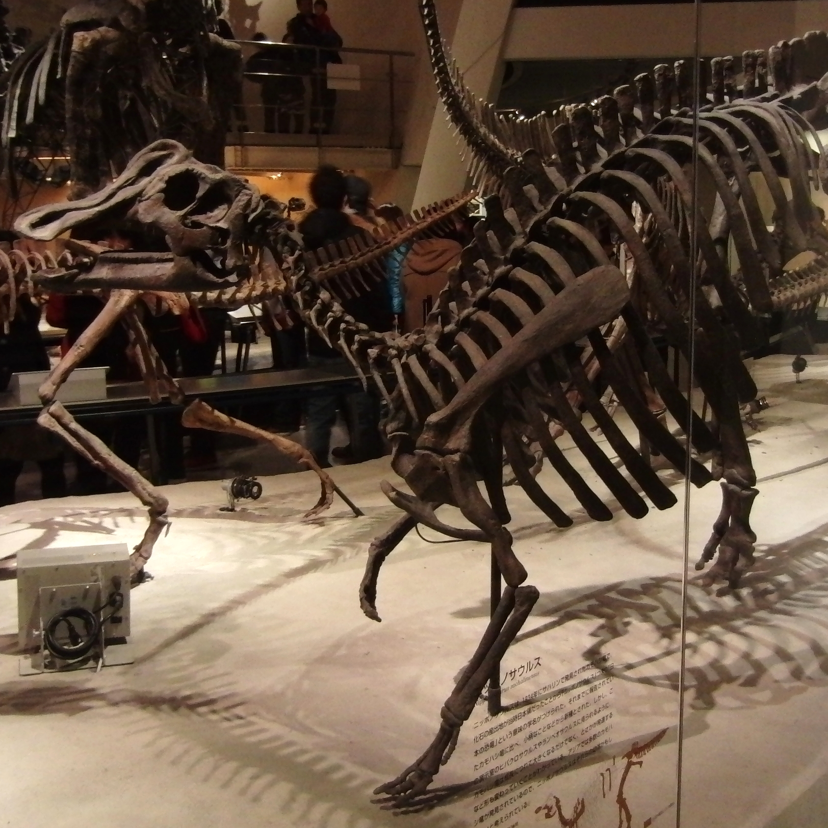 Skelton of Nipponosaurus (Nipponosaurus sachalinensis). Exhibit in the National Museum of Nature and Science, Tokyo, Japan.